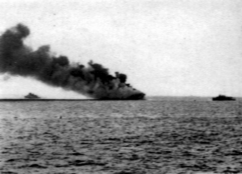 The U.S. Navy escort carrier USS Ommaney Bay (CVE-79) burning after being hit by a kamikaze in the Sulu Sea, 4 January 1945.